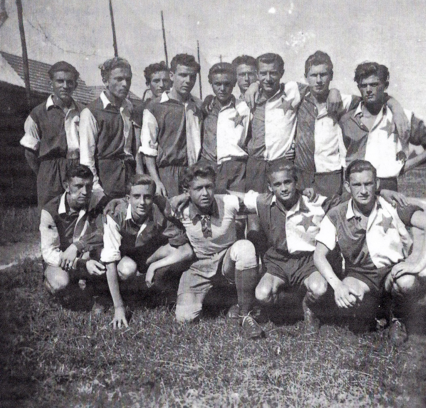 Soccer Team Moravska Slavia, Brno, Czechoslovakia during 1946-1948